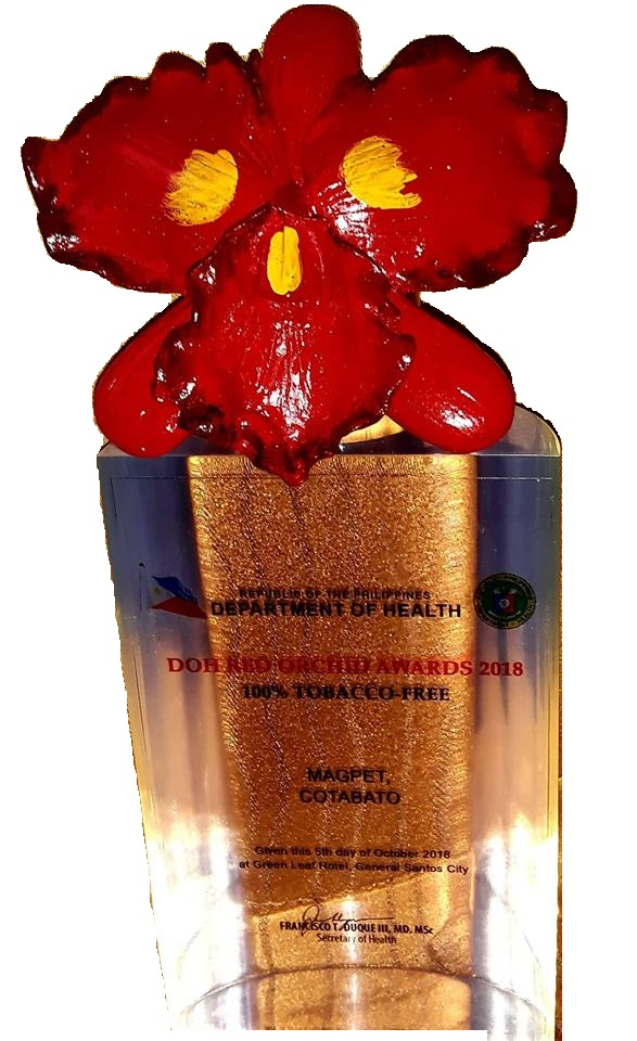 The Red Orchid Award is given by the Department of Health to Local Government Units and other agencies which promoting a 100% Smoke Free Environment.